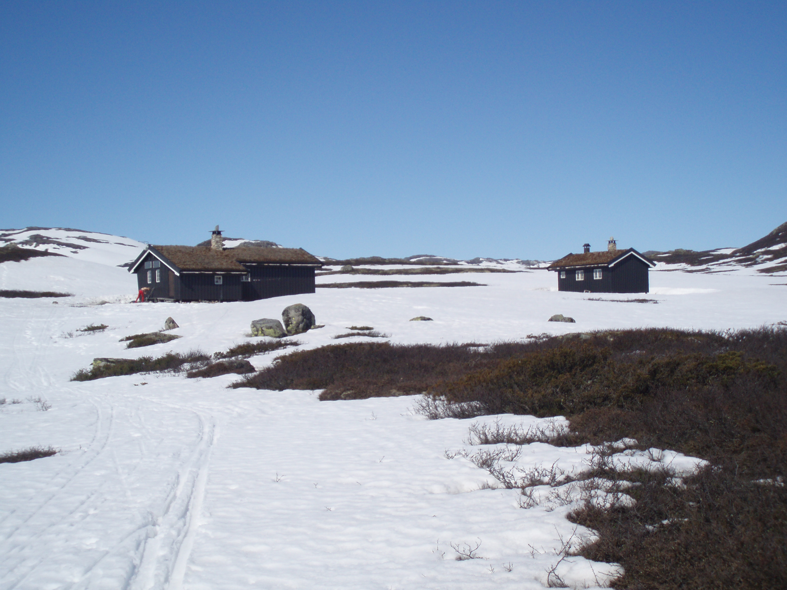 Helberghytta, a cottage on Hardangervidda, Norway.